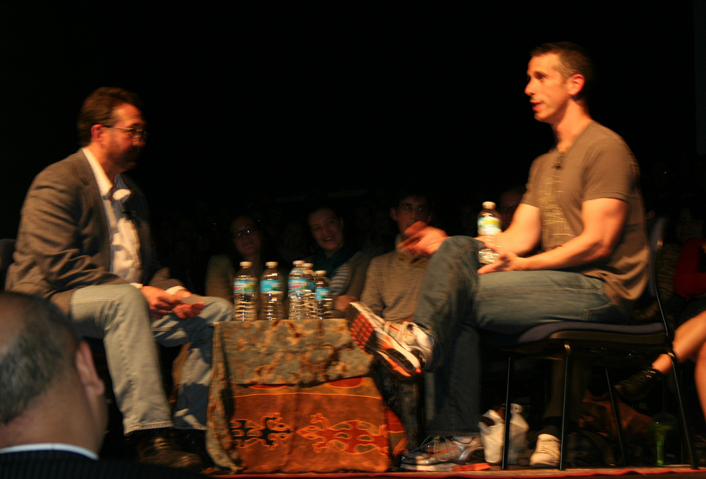 Sex advice columnist Dan Savage and his brother Bill Savage, a senior lecturer in English at Northwestern University, discuss sex education at the Francis W. Parker School in Lincoln Park, Chicago on Nov. 12.